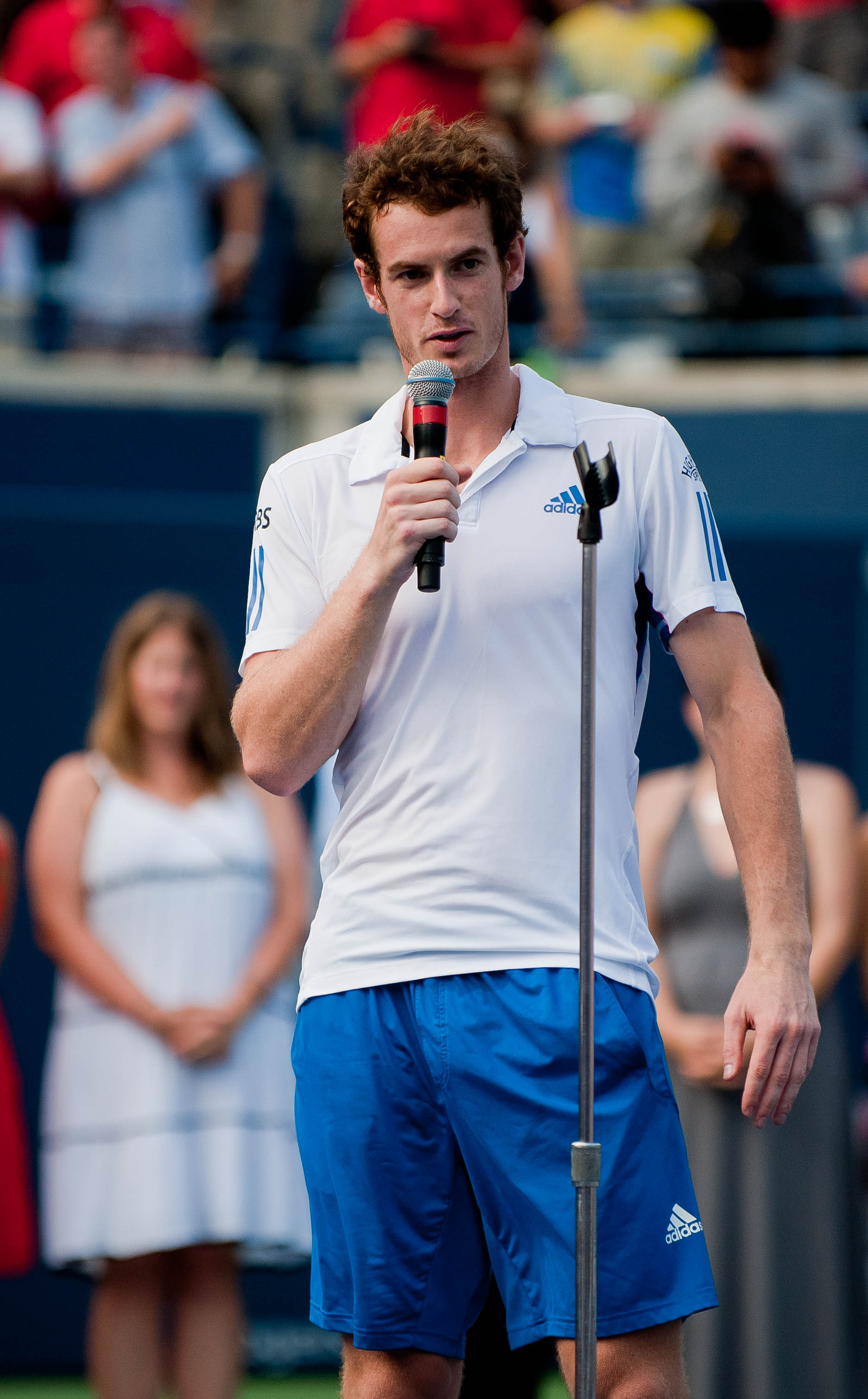 Andy Murray during his victory speach.